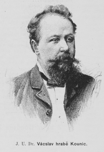 Portrait of Count Václav Robert Kounic (Wenzel Robert von Kaunitz) (1848 - 1913), Czech politician (deputy in Austrian "Reichsrat").